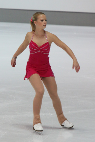 Katharina Häcker at the 2009 Nebelhorn Trophy.